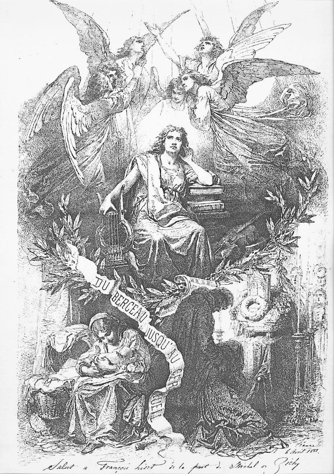 Von der Wiege bis zur Bahre (From the cradle to the grave / Du berceau jusqu’au cercueil). Engraving after the drawing by Mihály Zichy with the dedication: Salut á François Liszt á la part d. Michel d. Zichy. 6. Avril 1881 VienneFor Franz Liszt it was the inspiration for his last symphonic poem Von der Wiege bis zur Bahre (From the cradle to the grave).